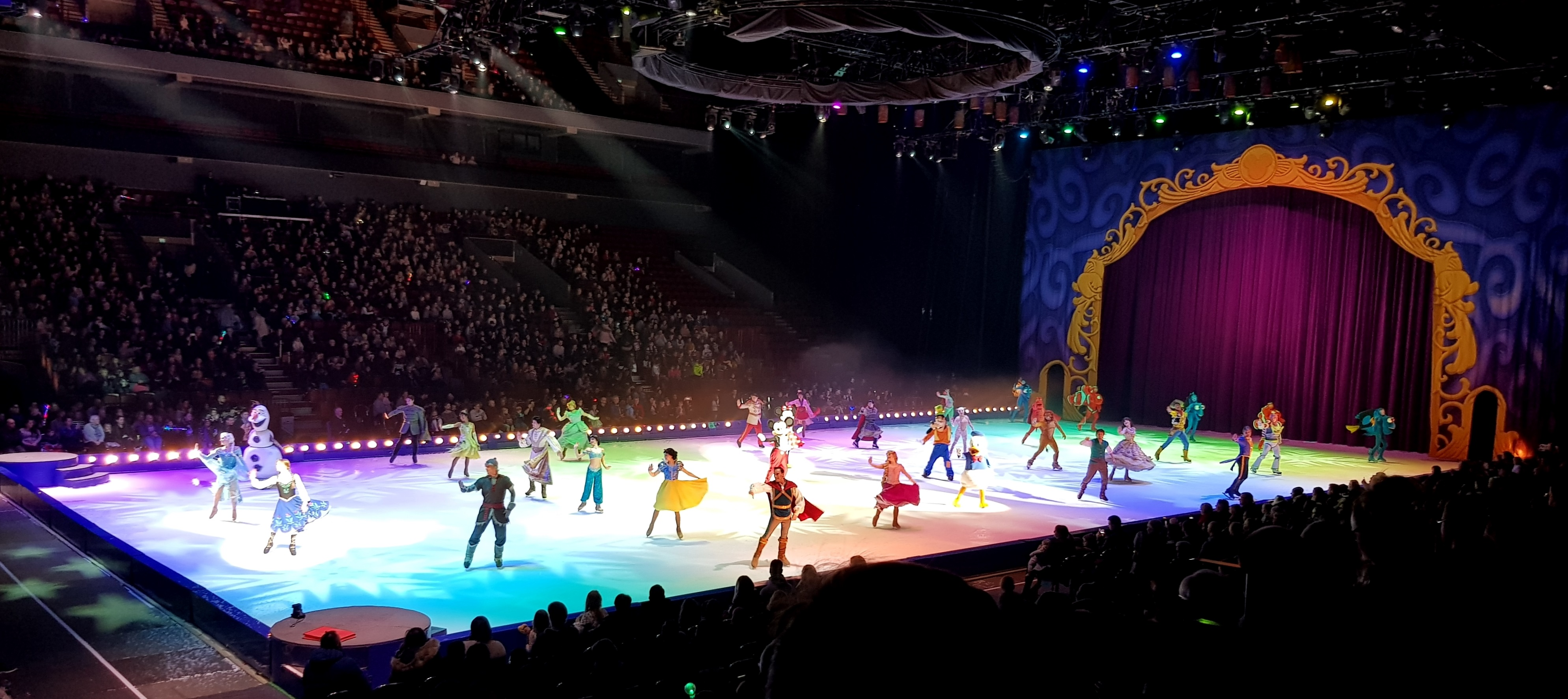 The cast of Disney on Ice in Malmö, Sweden.